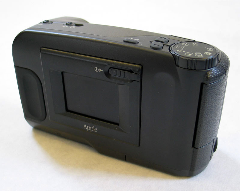 Apple Quicktake 200